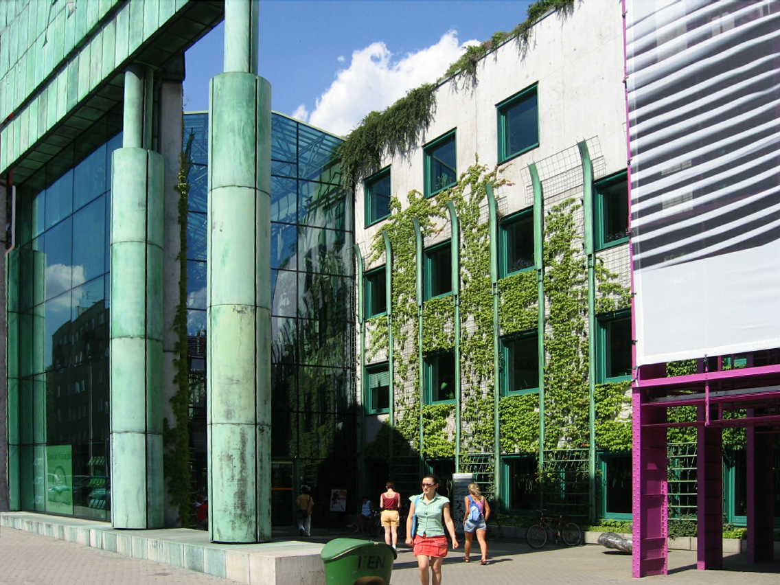 University of Warsaw Library